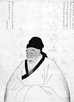 Portrait of Song, Si-Yeol, the leading Confucianist of the mid Joseon Dynasty. by Kim Chang-up